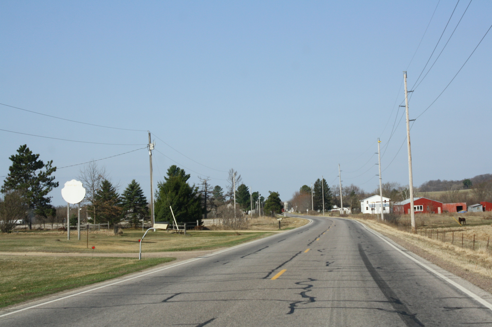 Looking west in Franklin (community), Jackson County, Wisconsin along County C.